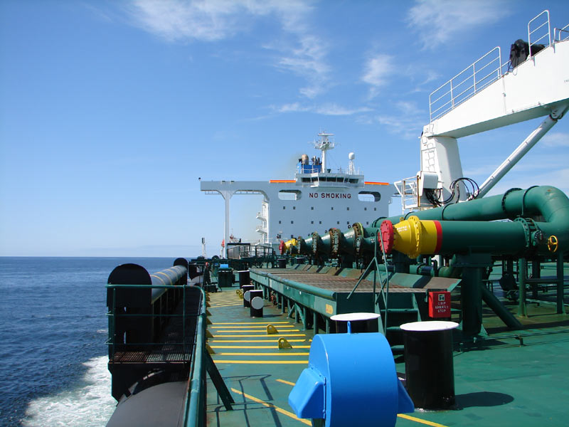 In yellow and red, the gas connection allwing closed circuit opration, on the oil tanker Algarve.